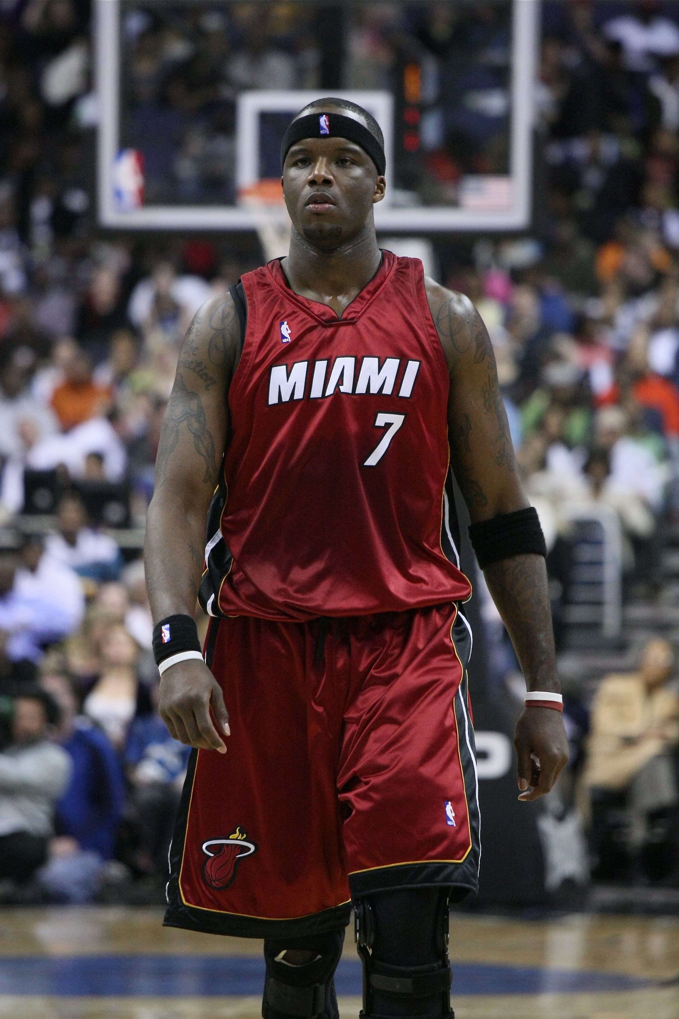 Jermaine O'Neal, American basketball player for the Miami Heat